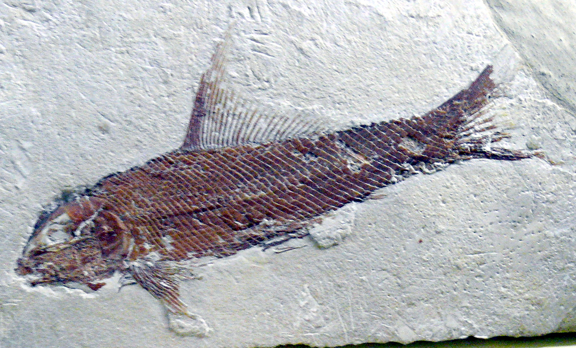 Ophiopsis attenuata WAGNER, from Eichstätt, Germany, Upper Jurassic